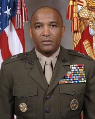 Ronald S. Coleman, United States Marine Corps general - shown as major general at 2 star rank. (Coleman received his 3rd star in 2006.)